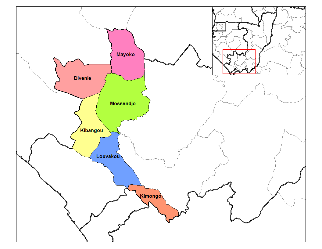 Map of the districts of Niari region in the Republic of the Congo. Created by Rarelibra 14:35, 12 September 2006 (UTC) for public domain use, using MapInfo Professional v8.5 and various mapping resources.